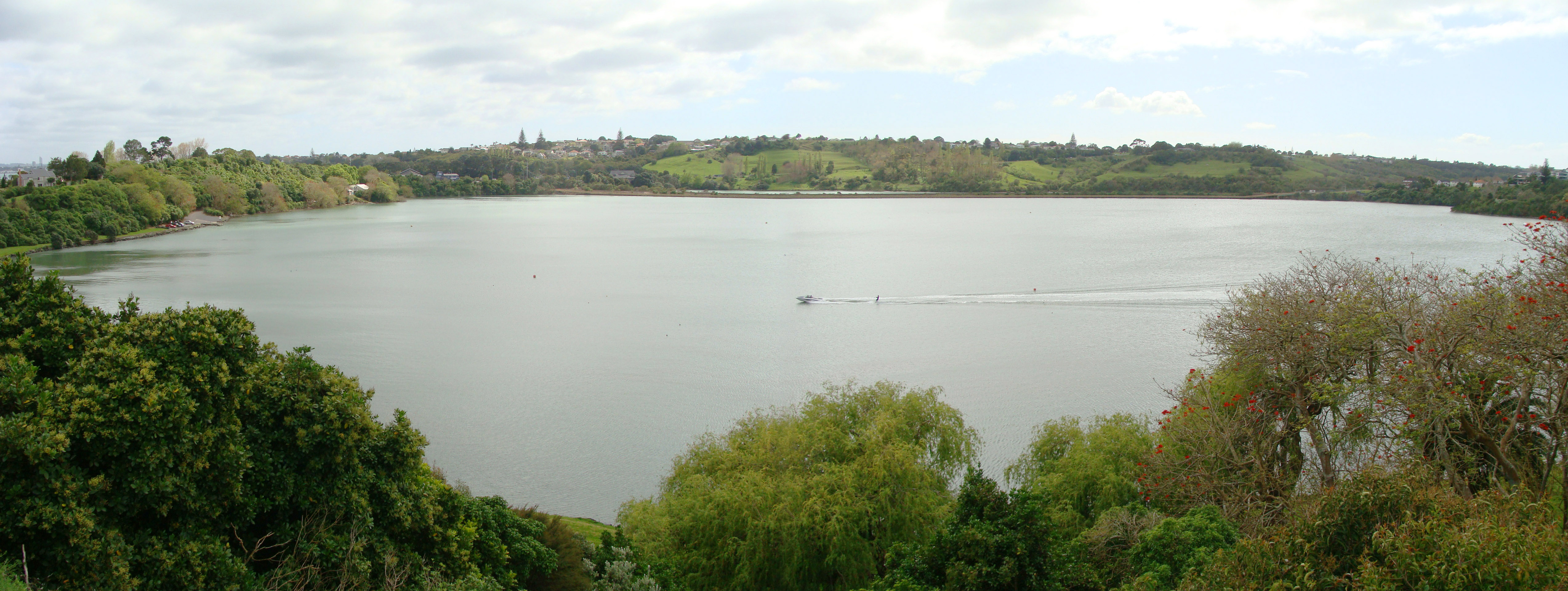 Orakei Basin volcanic crater, Auckland, New Zealand.